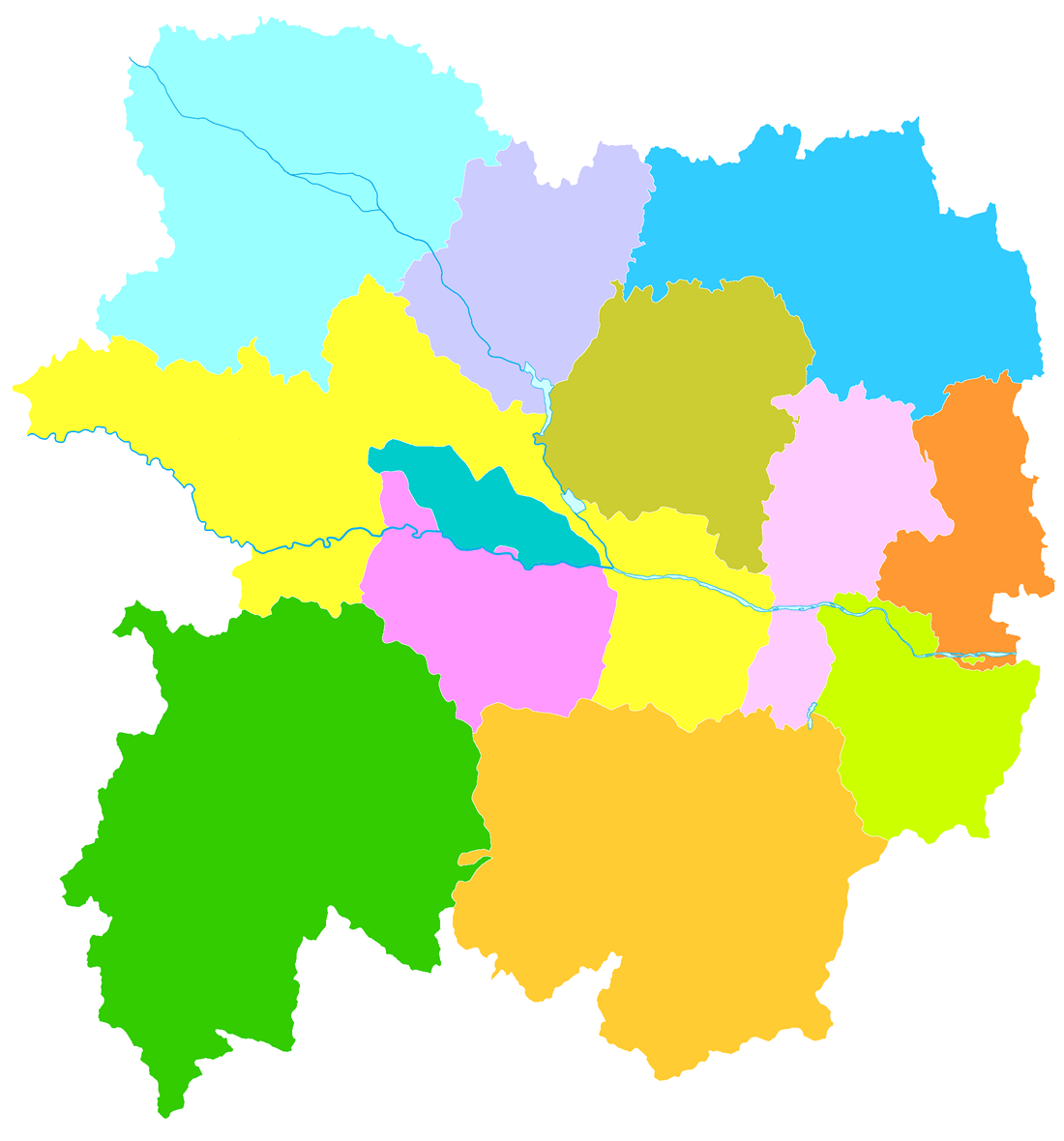 administrative division of Baoji City, Shaanxi, China